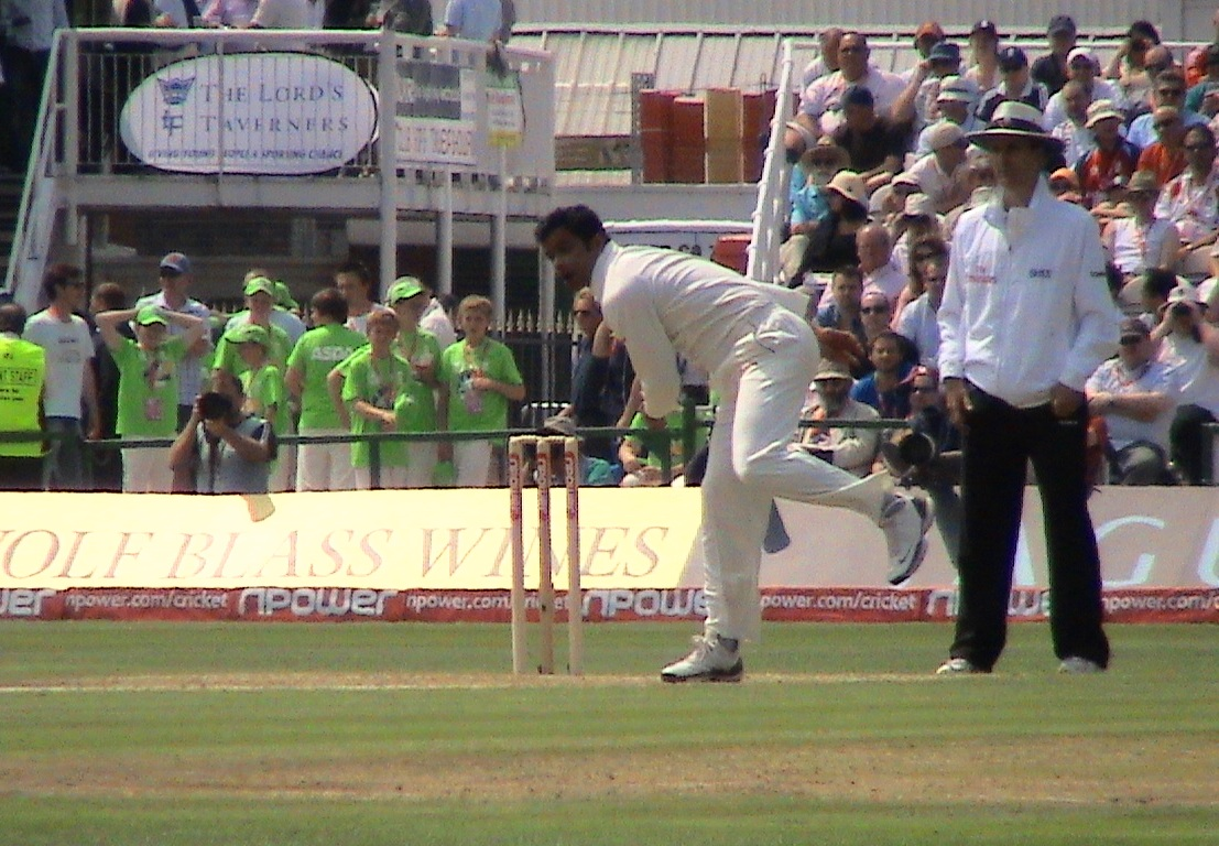 Left-arm orthodox spinner Abdur Razzak bowling for Bangladesh in the first innings of the 2nd Test against England, at Old Trafford Cricket Ground. Razzak has just delivered the ball. The umpire behind him is Billy Bowden.